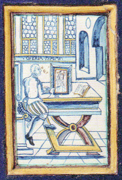 stove pile of Ludwig Pfau I., today in the national museum of switzerland. It shows an stove painter at work.